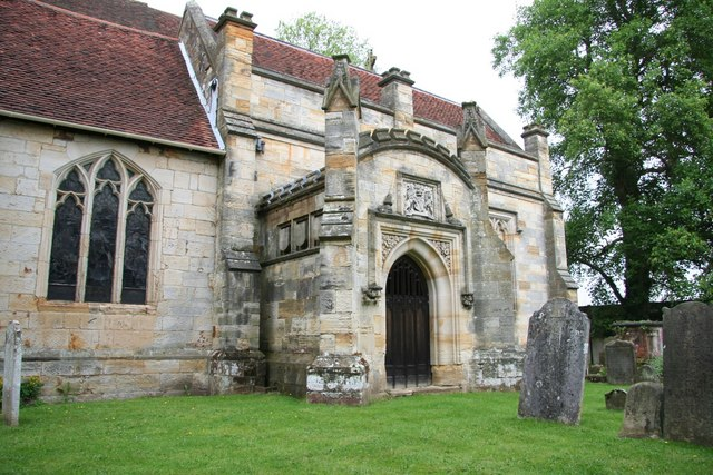 Sidney Chapel & Vault What looks like a porch actually leads down steps to a vault below the Sidney Chapel in St.John the Baptist's church at Penshurst. By J B Rebecca in 1820